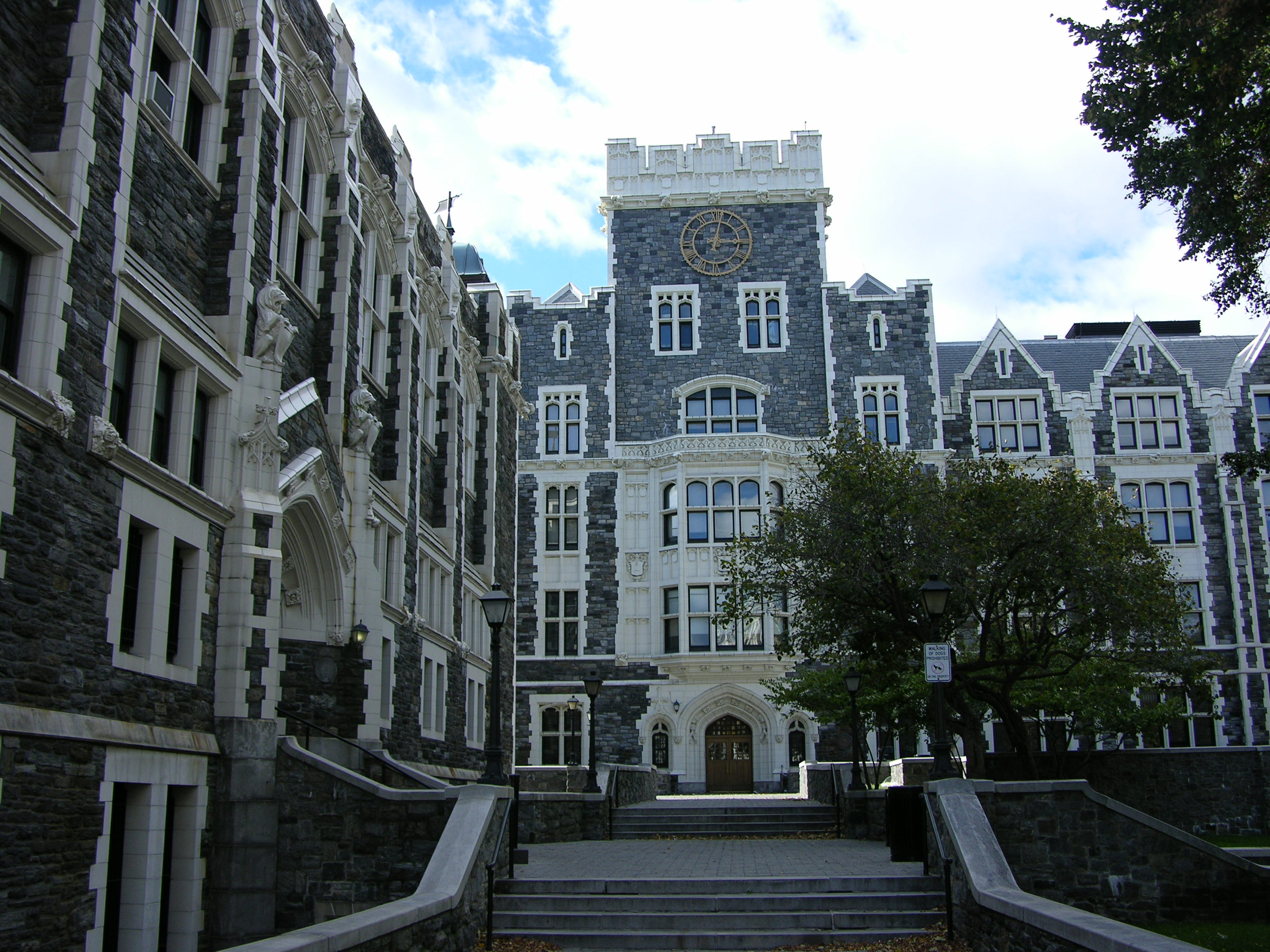 City College of New York, CUNY. Located in Harlem, Manhattan, NYC, USA. Depicted is one of the main buildings of the college.